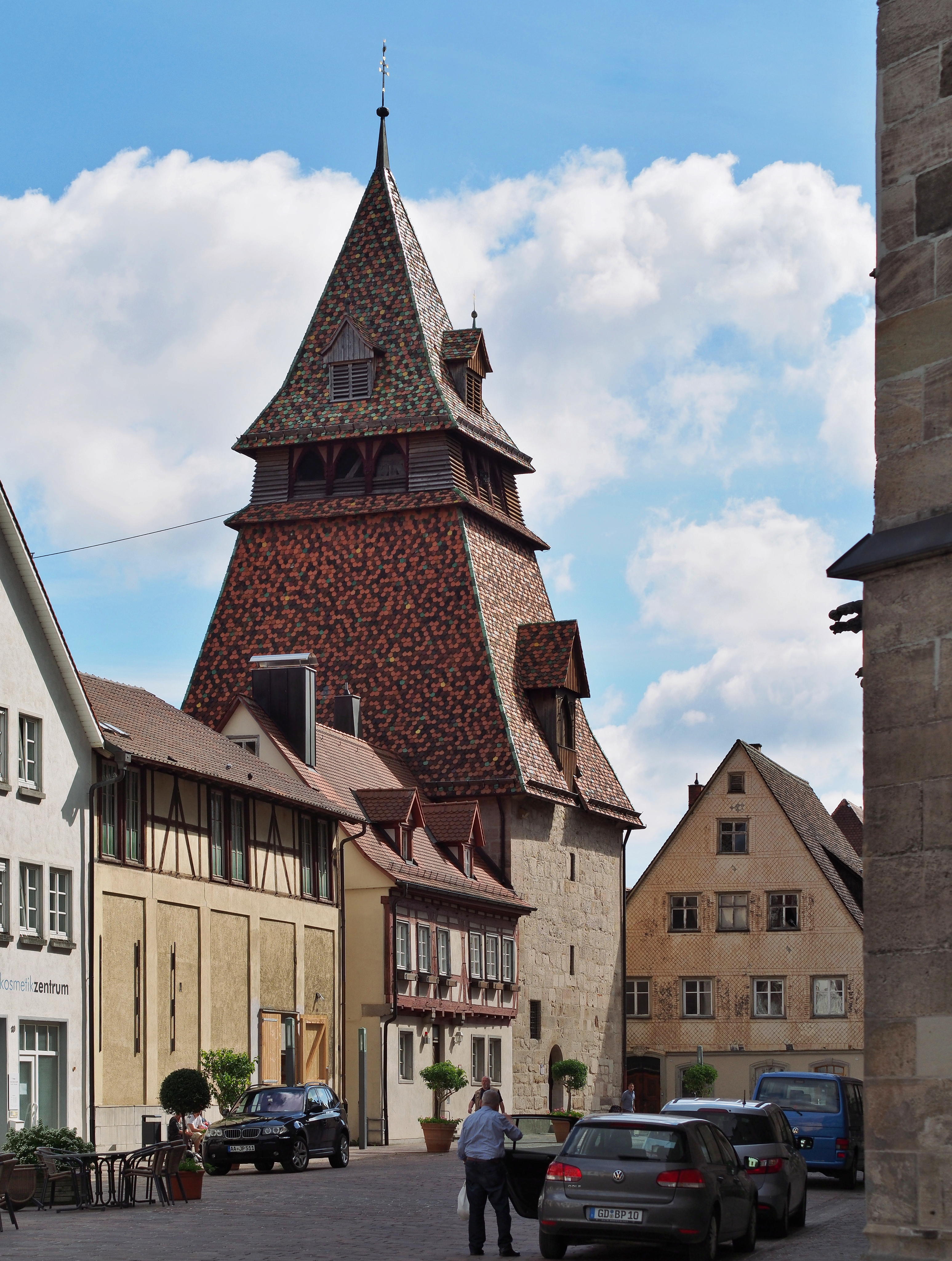 Detached bell tower of Holy Cross Minster, Schwäbisch Gmünd, Germany (edge of minster visible on the right)